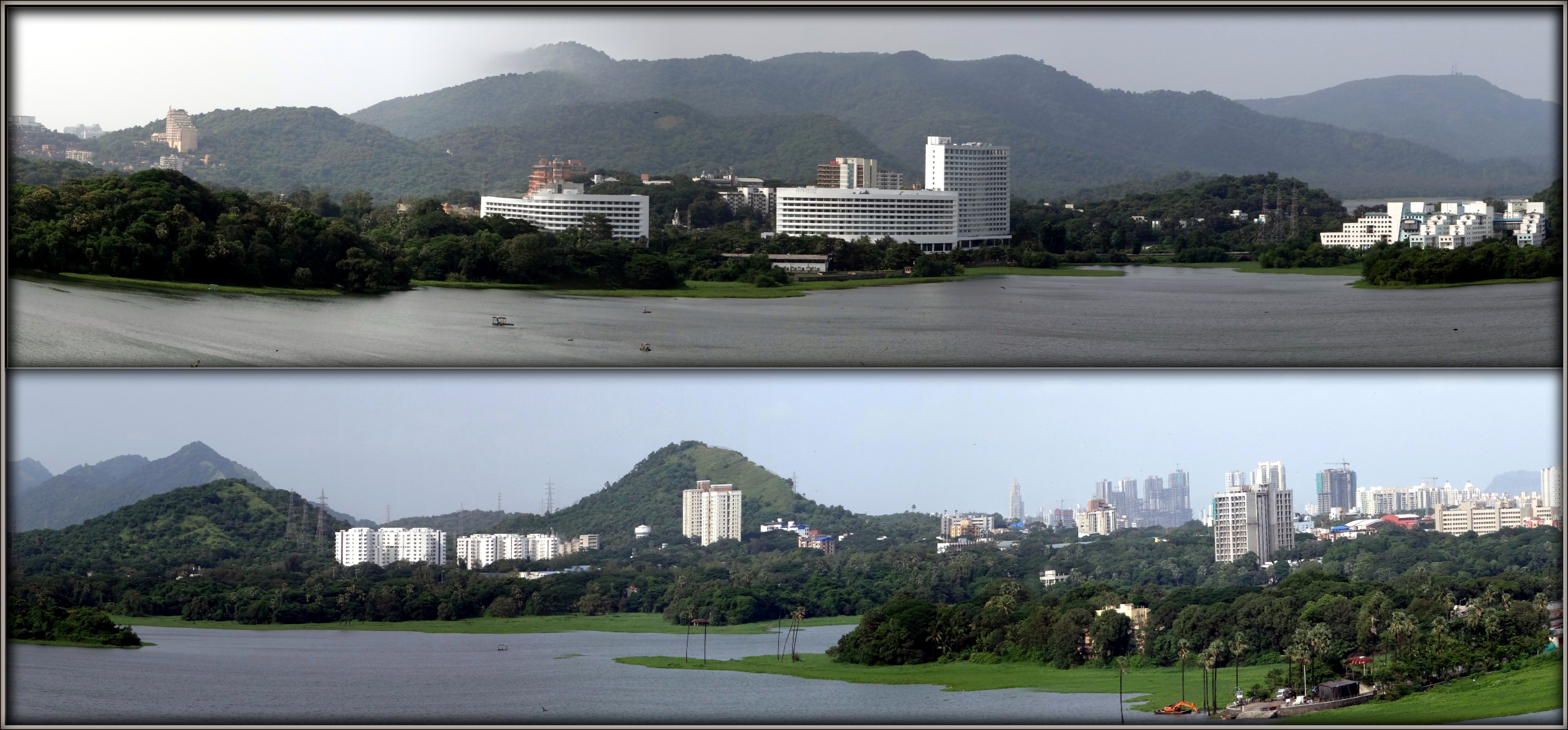 Stitch Panorama of Powai Lake from Shimmering Heights 16th Floor taken by Santanu Dasgupta on 17th September 2015.